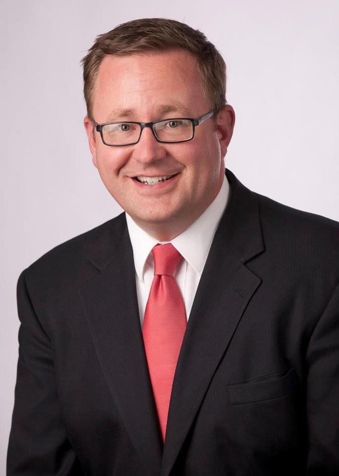 Jeff Anderson Portrait